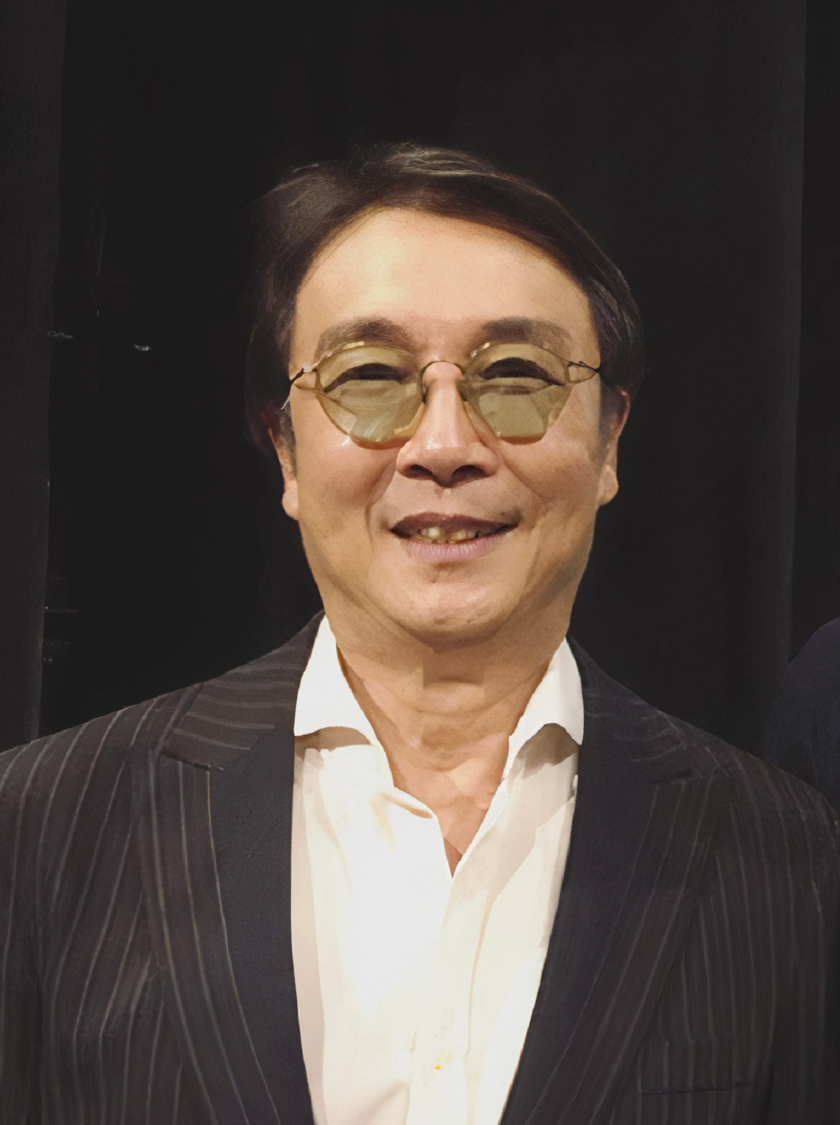 Matteo Ricci The Musical